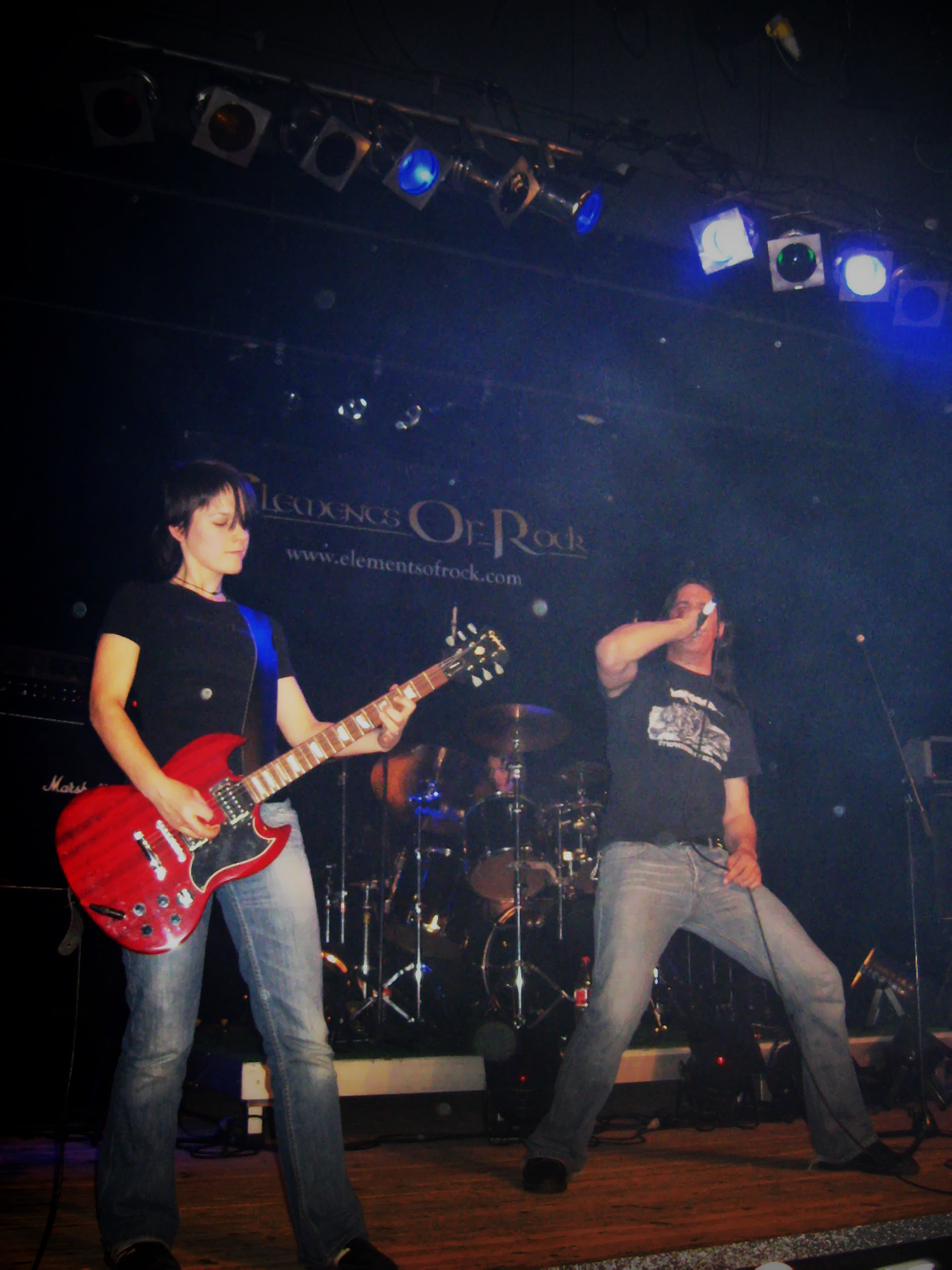 German death metal band Sacrificium live at Elements of Rock, Uster, Switzerland 2007. Originally uploaded at Italian Wikipedia by Senpai who says in the description that he was authorized by the webmaster of whitemetal.it site, Valerio Mei (author of the photo), to upload the photo. Licended under Italian Creative Commons attribute (CC-BY-SA-2.5-it). The image had a tag saying that the image is suitable for Wikimedia Commons.